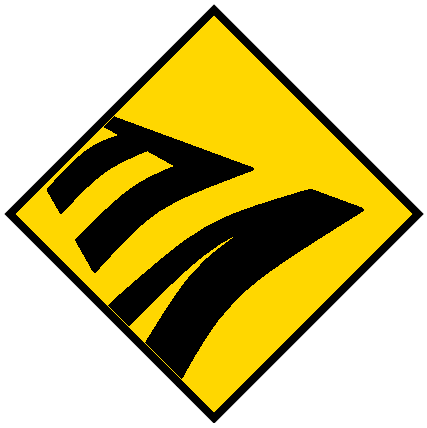 My versio of the speed bump icon